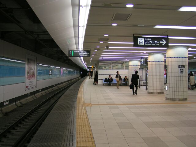 The Platform of Tokyu Toyoko Line/Minato Mirai 21 Line